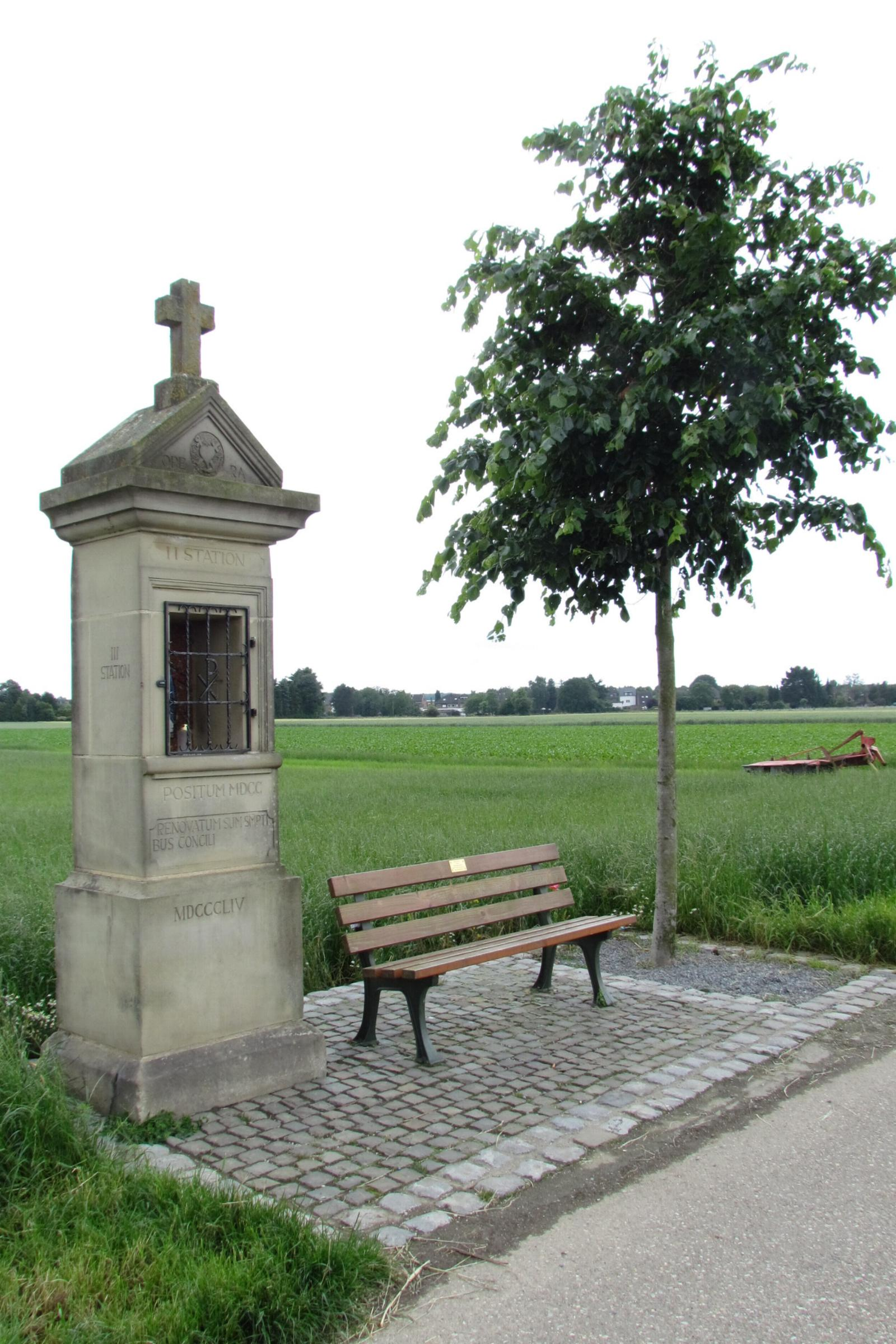 This is a photograph of an architectural monument.It is on the list of cultural monuments of Korschenbroich